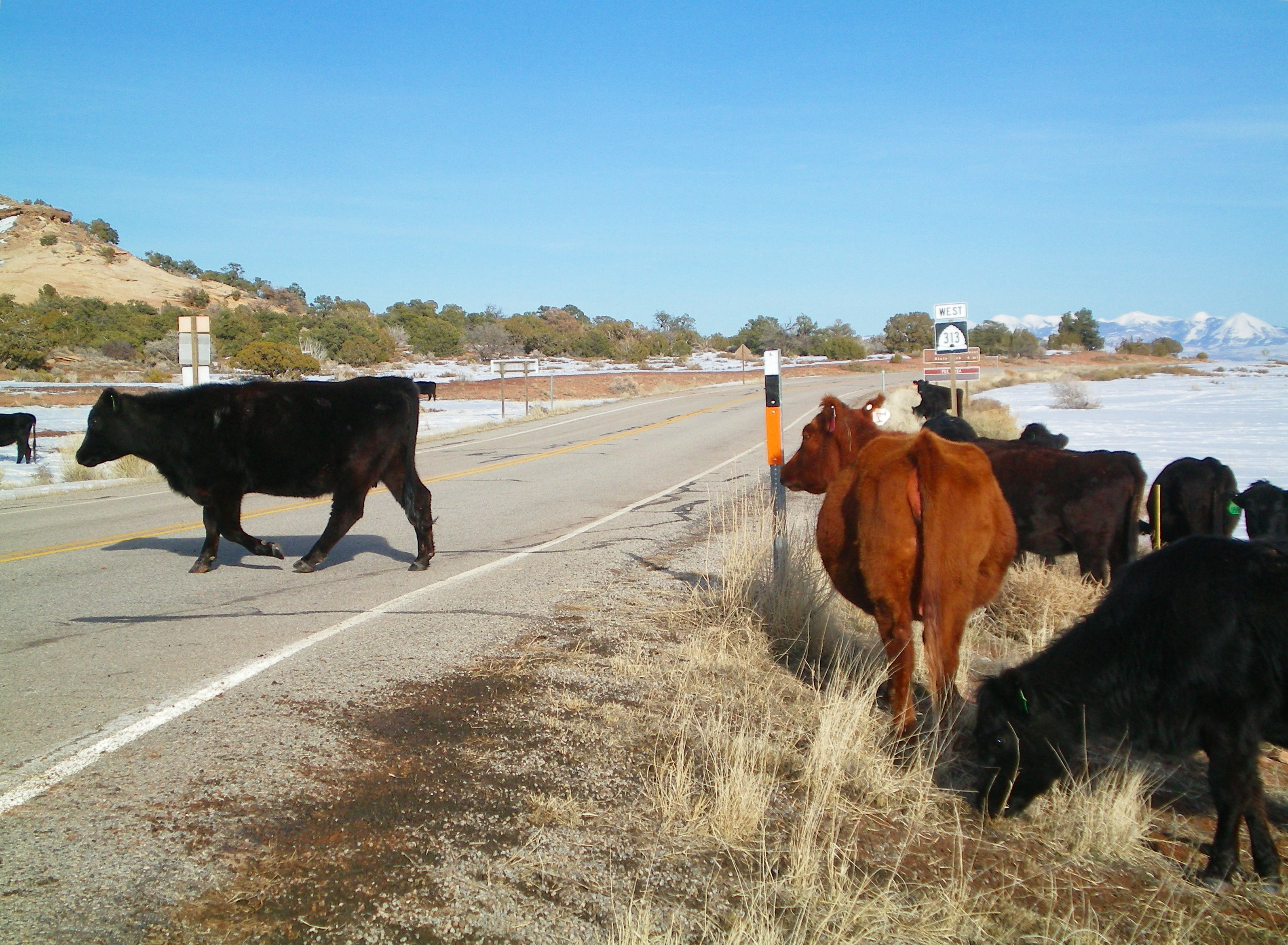 Loose cattle on the Utah State Route 313, near Dead Horse Point State Park. San Francisco Peaks in the background.